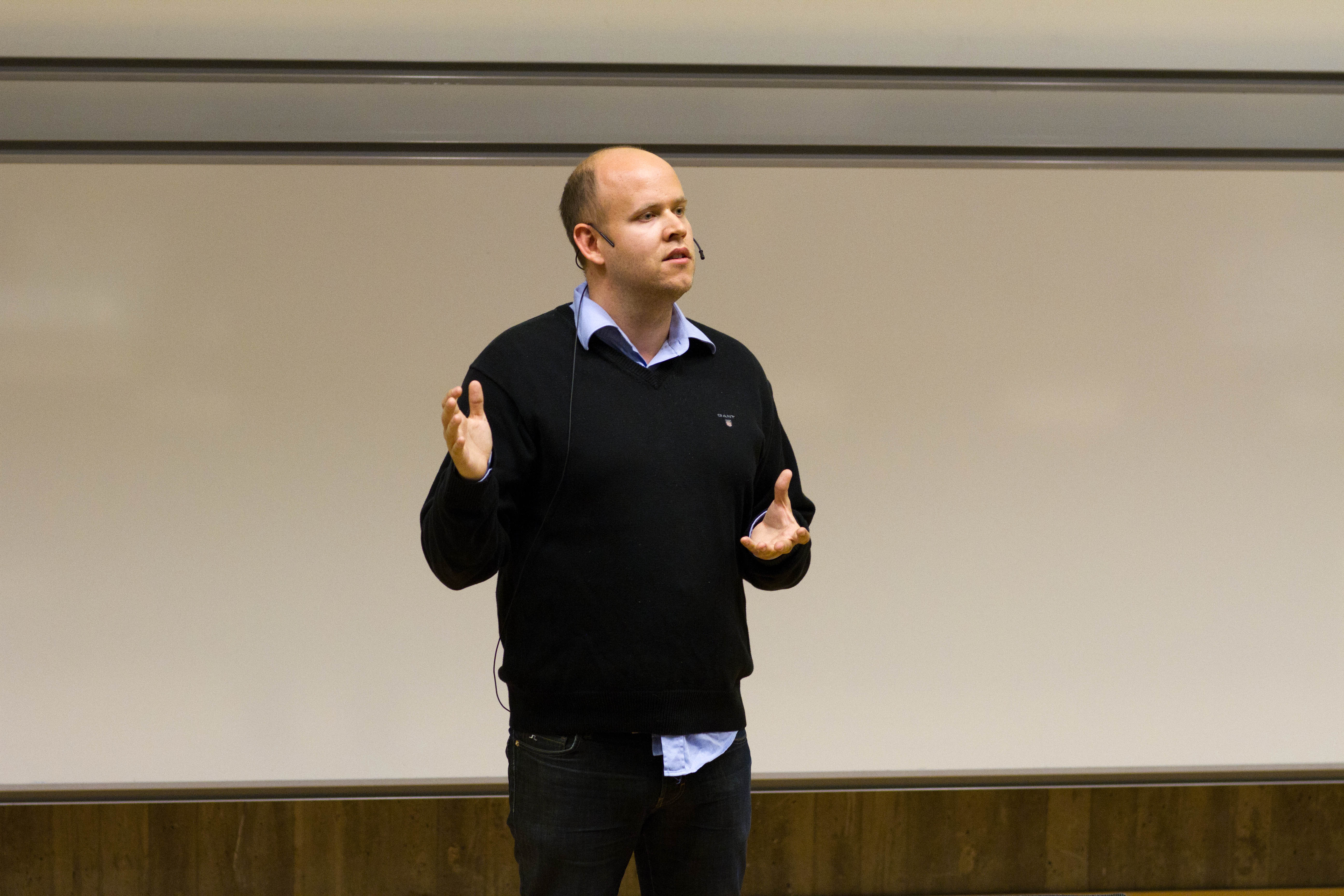 Daniel Ek, CEO of Spotify talking at IT-dagarna, Linköping University. It was a really inspiring talk!